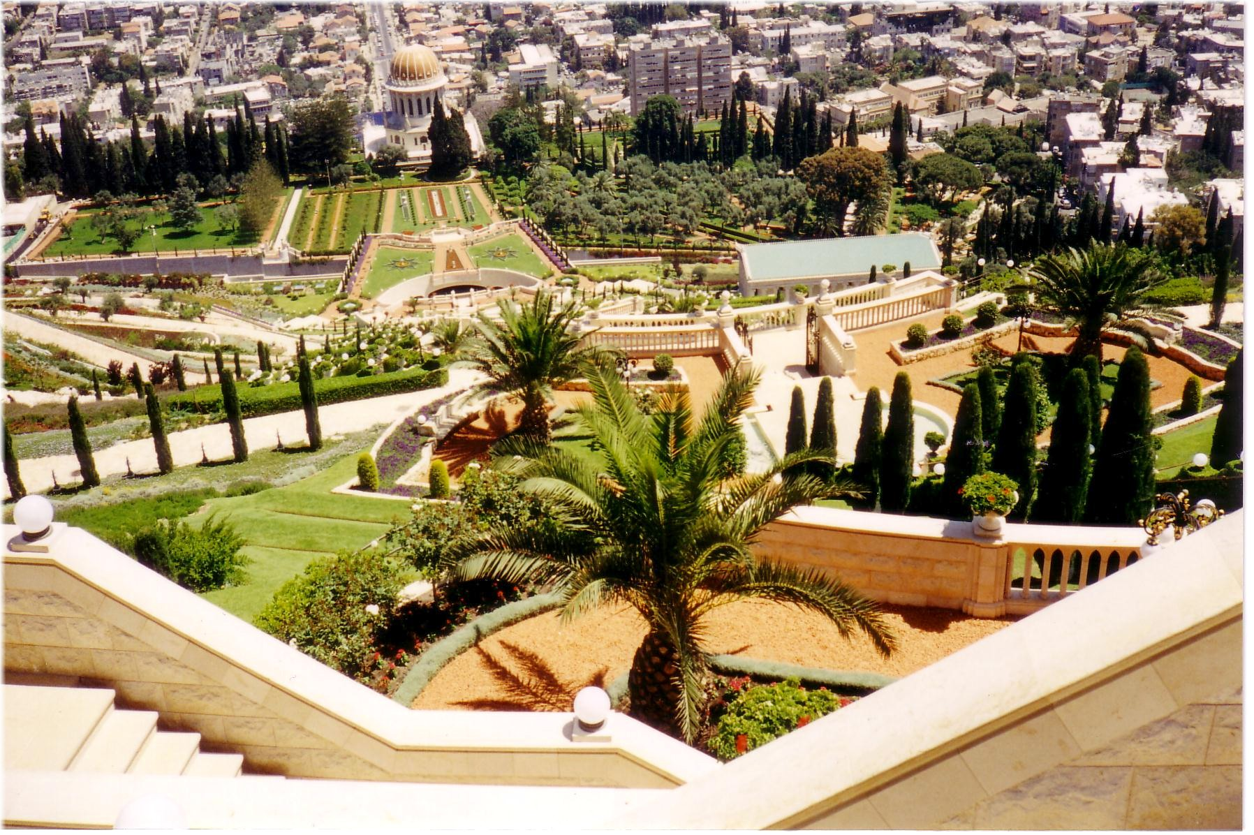 Terraced gardens; 19 terraces on the side of the Carmel mountain.